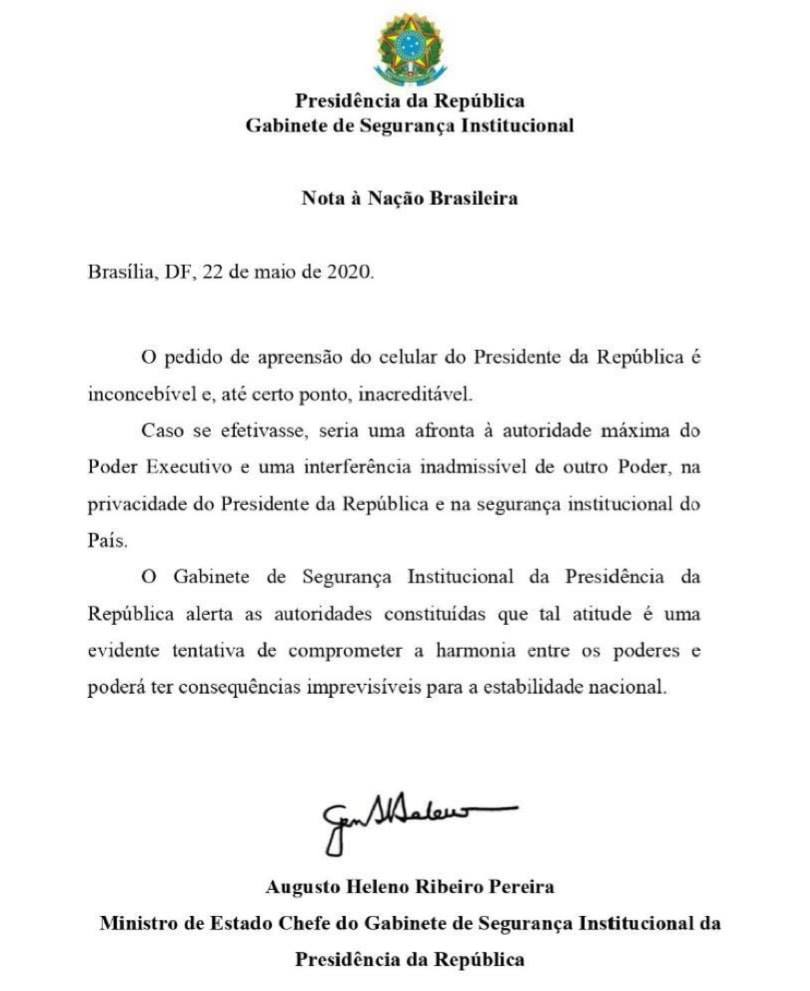 Nota à Nação Brasileira Brasília, DF, 22 de maio de 2020. O pedido de apreensão do celular do Presidente da República é inconcebível e, até certo ponto, inacreditável. Caso se efetivasse, seria uma afronta à autoridade máxima do Poder Executivo e uma interferência inadmissível de outro Poder, na privacidade do Presidente da República e na segurança institucional do País. O Gabinete de Segurança Institucional da Presidência da República alerta as autoridades constituídas que tal atitude é uma evidente tentativa de comprometer a harmonia entre os poderes e poderá ter consequências imprevisíveis para a estabilidade nacional. Augusto Heleno Ribeiro Pereira Ministro de Estado Chefe do Gabinete de Segurança Institucional da Presidência da República